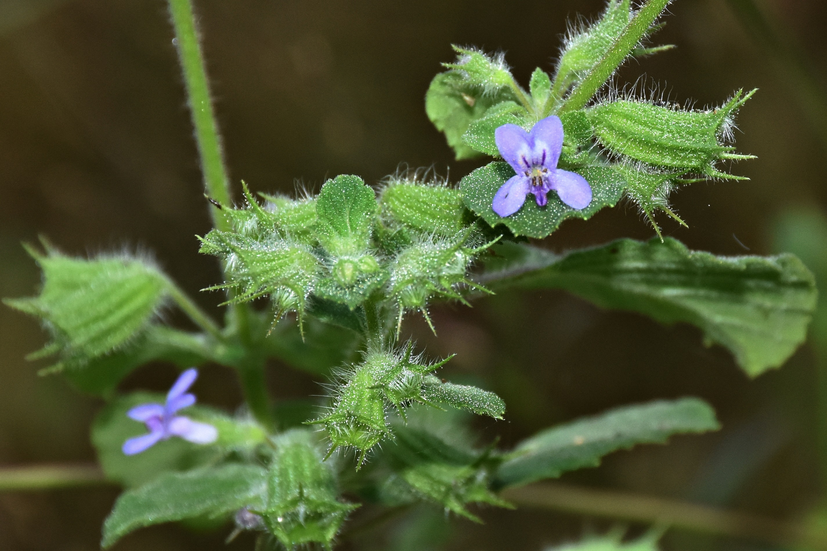 At Neeliyarkottam.